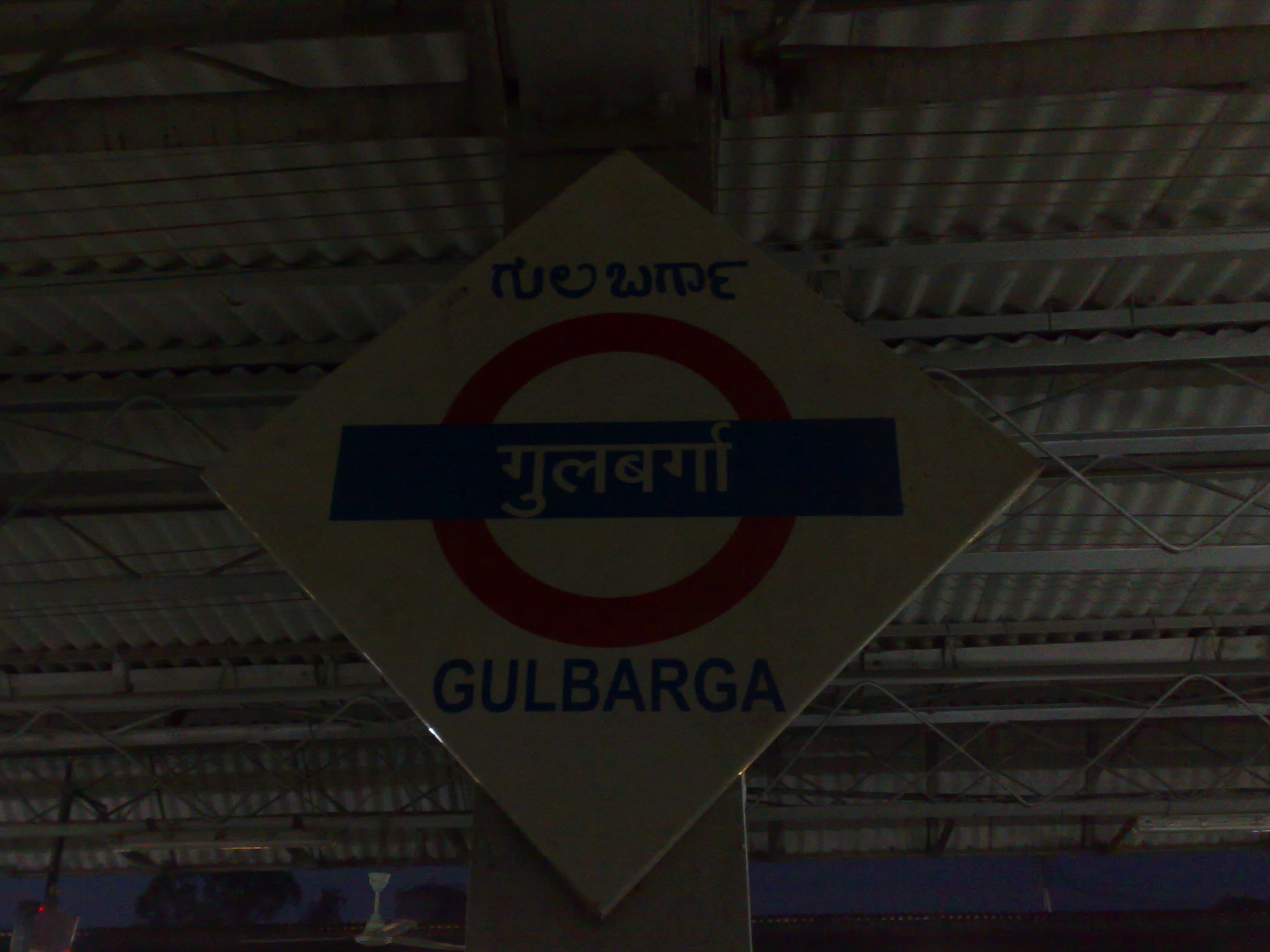 Gulbarga railway station